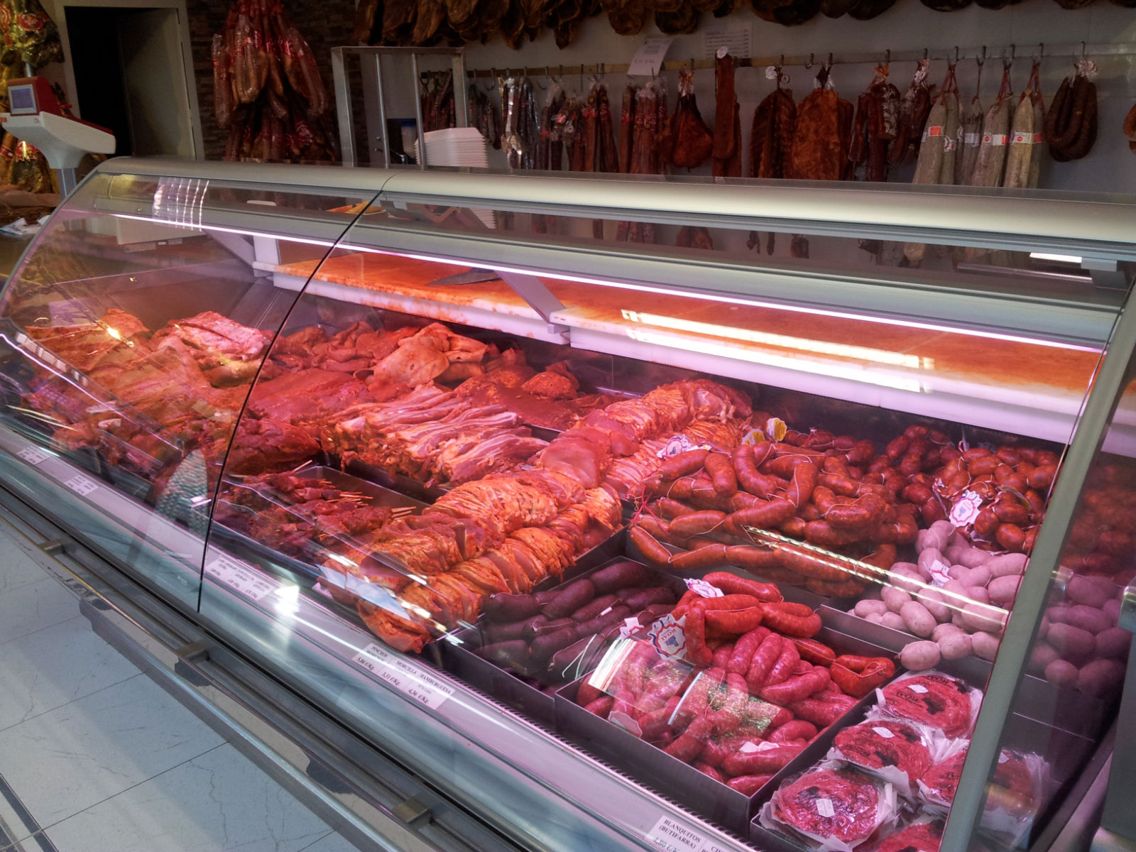 Products of pork marinated in the Valle de Amblés, province of Ávila, Spain.